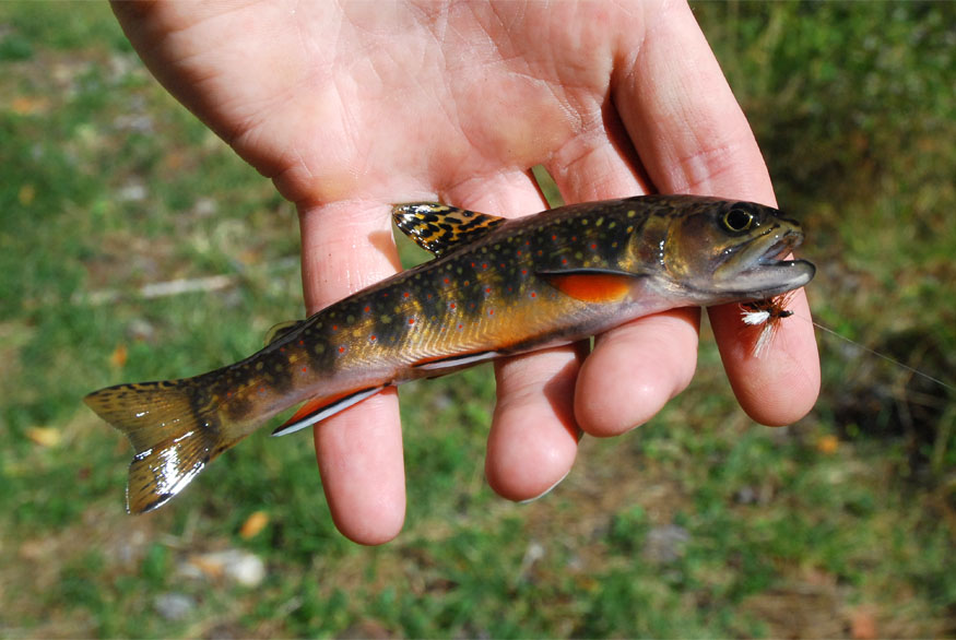 Native brook trout {Salvelinus fontinalis), photo by Zach Matthews